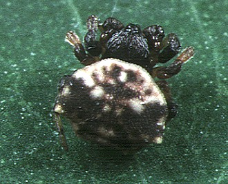 male Thelacantha brevispina from Okinawa.